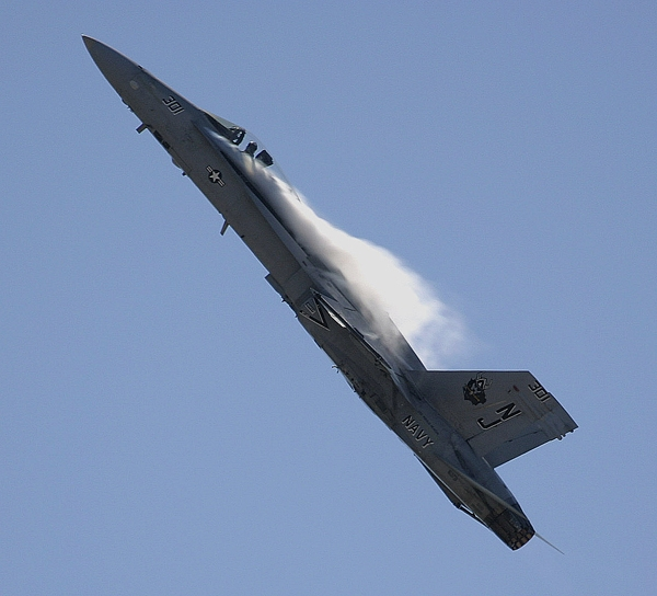 During an aerial demo at the Pacific Coast Air Museum's 2005 "Wings Over Wine Country" airshow, an F/A-18 Hornet does a high-g pull-up. The high angle of attack causes powerful vortices to form around the edge of the leading-edge extensions of the wings. These strong leading edge vortices allows the Hornet's wings to generate lift despite these unusually high angles of attack. This makes the Hornet capable of extremely tight turns over a large range of speeds. In this image, a drop in pressure results in a drop in temperature severe enough to condense the water in the air, making the vortex visible as white "vapor".